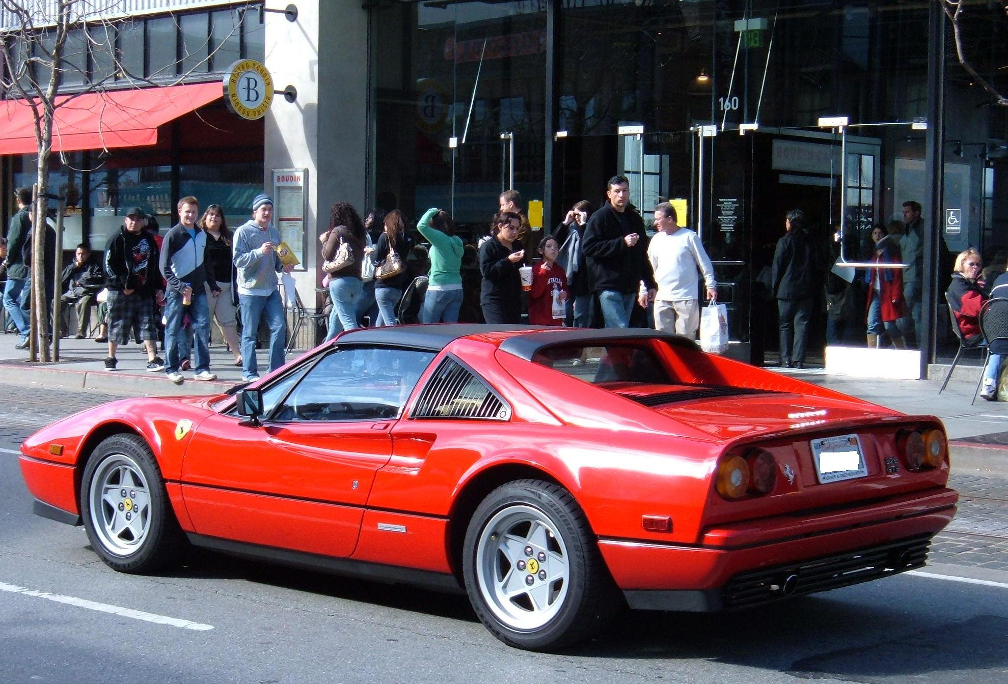 A Ferrari 328 GTS in Fisherman's Wharf, San Francisco.